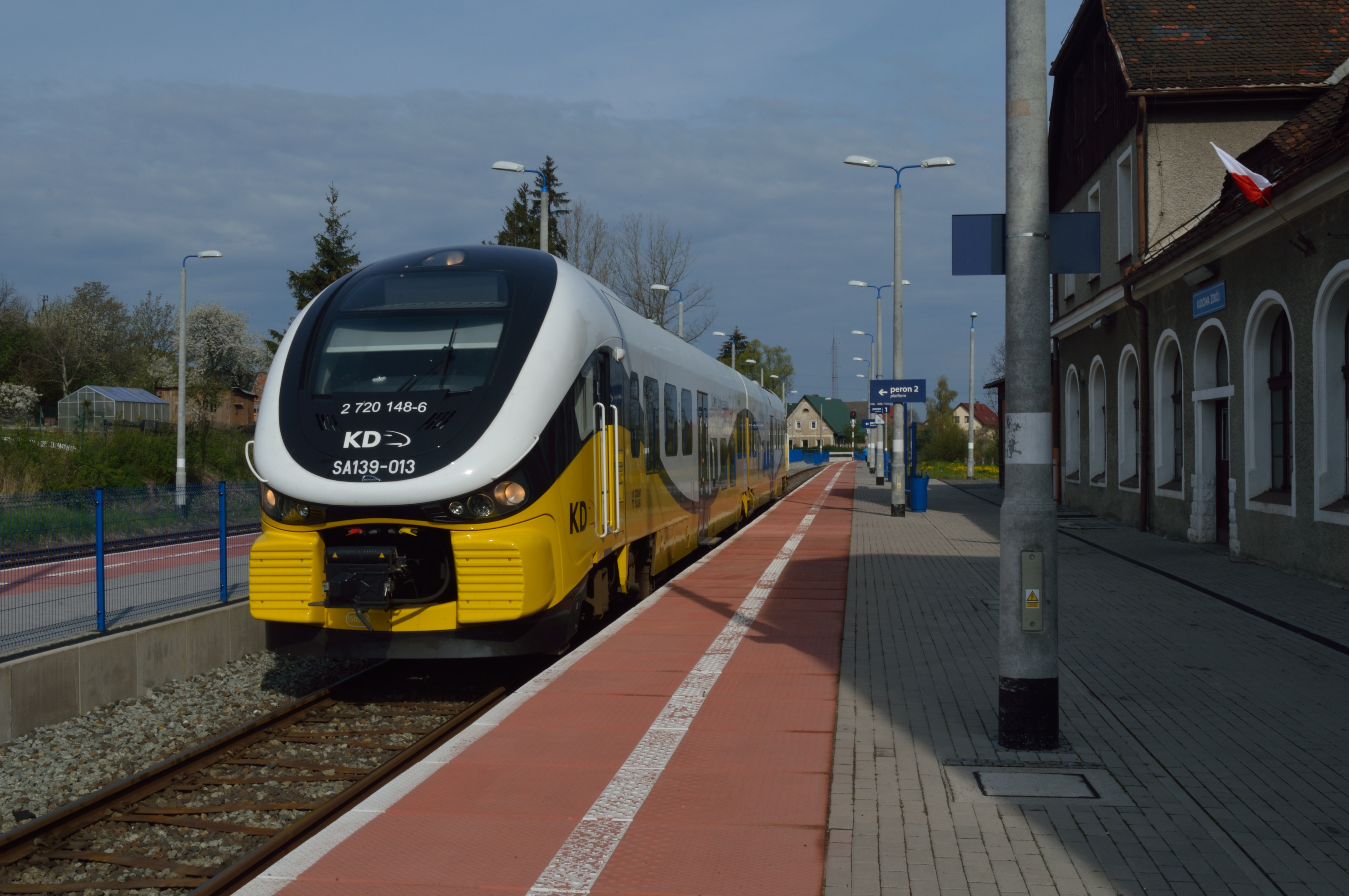 A particularly scenic line in Lower Silesia in southern Poland is that from Kłodzko to the spa town of Kudowa-Zdrój. On 5 May 2016, DMU set SA139-013 waits departure of train KD69308, 09:21 Kudowa-Zdrój to Wrocław Główny.